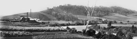 Historic photograph of the Beenleigh Rum Distillery near Beenleigh, Australia, ca. 1912.